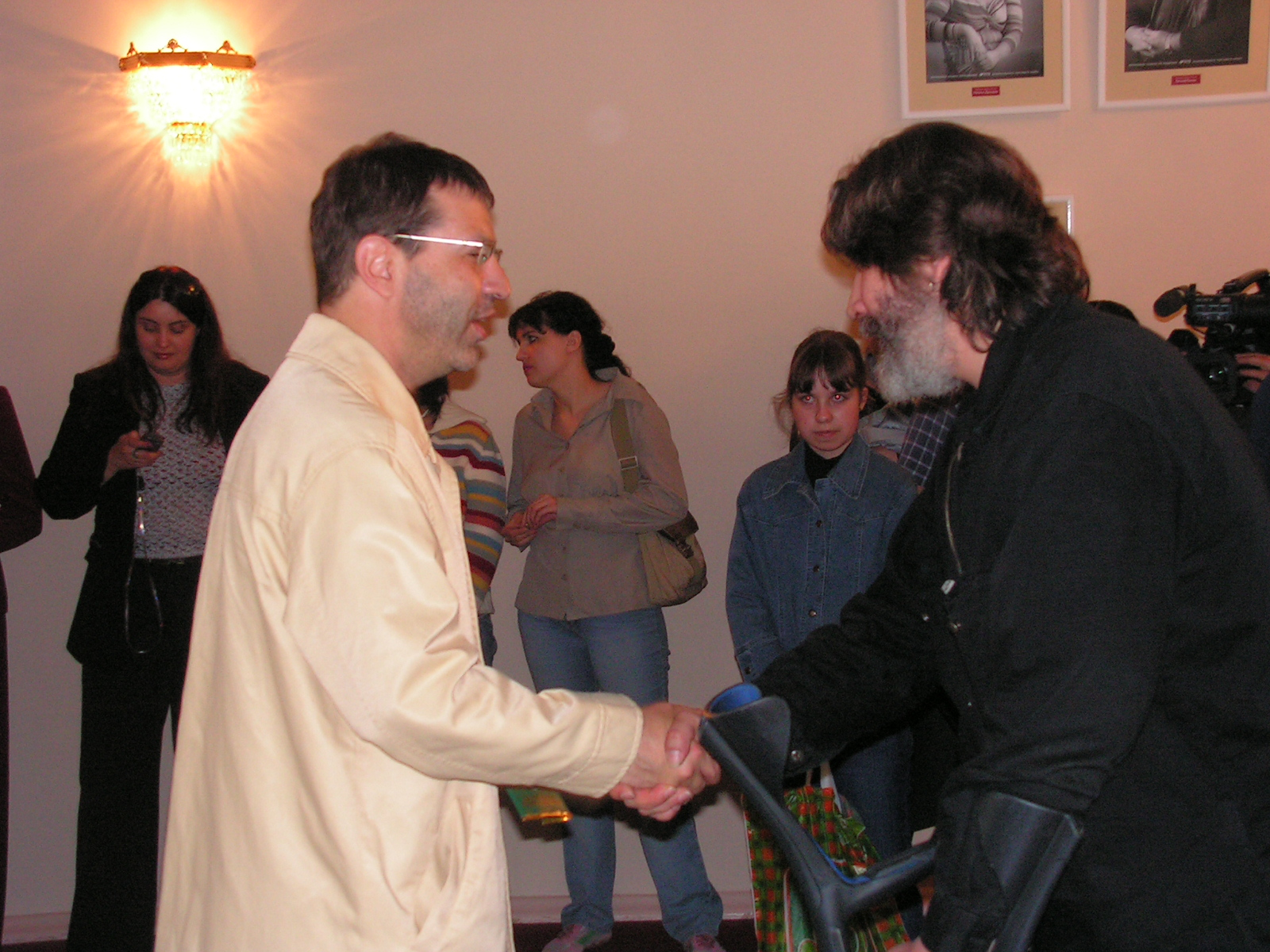 Playwright Evgeny Grishkovets after his press conference talks with playwright Vadim Levanov. Hall theater "Koleso", Togliatti, Russia.